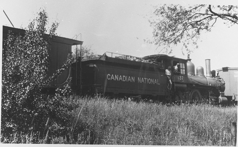 Section of the Toronto and Eastern Railway being pulled up in 1927. This section is between Whitby and Oshawa.